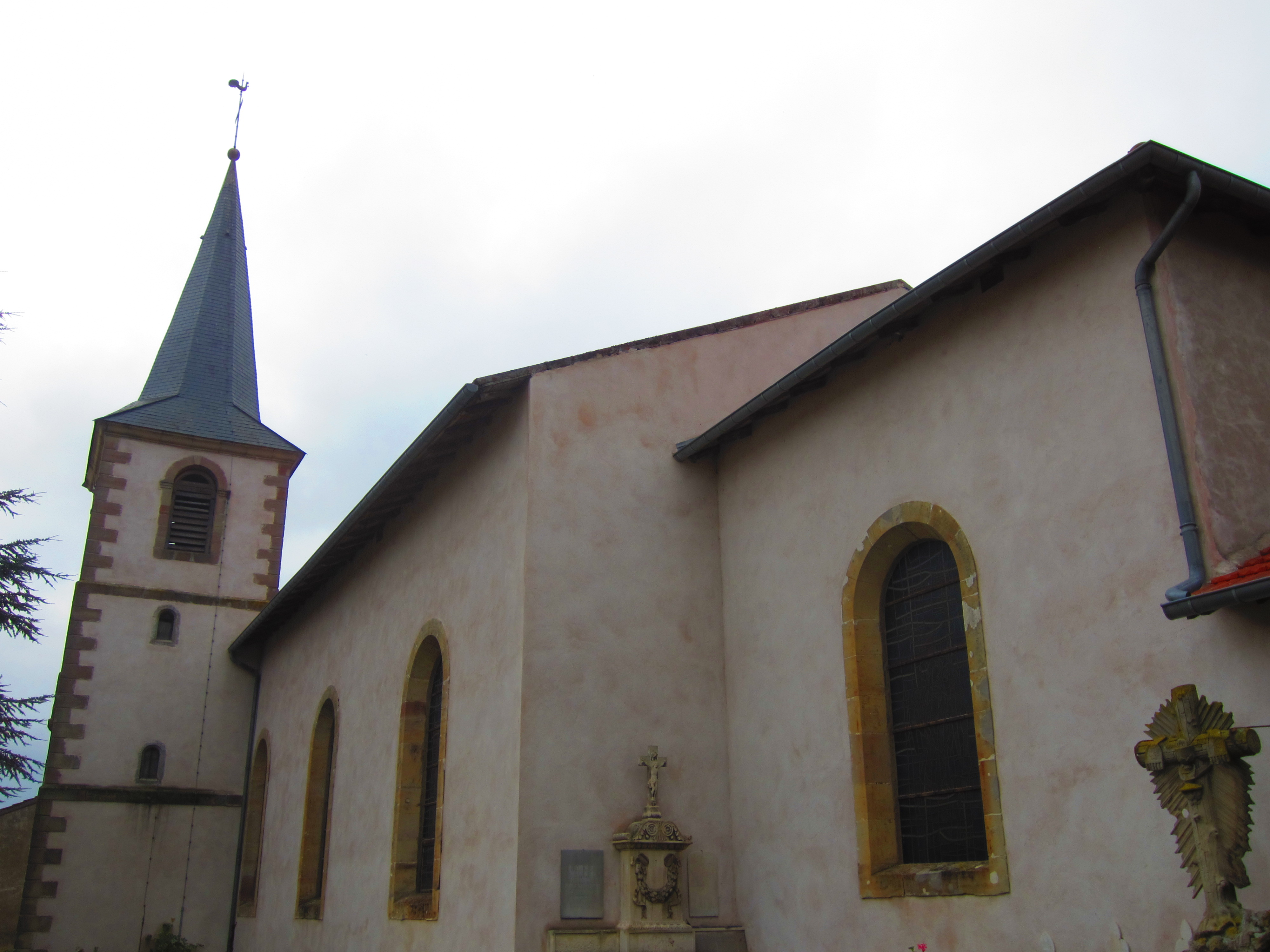 Mainvillers church